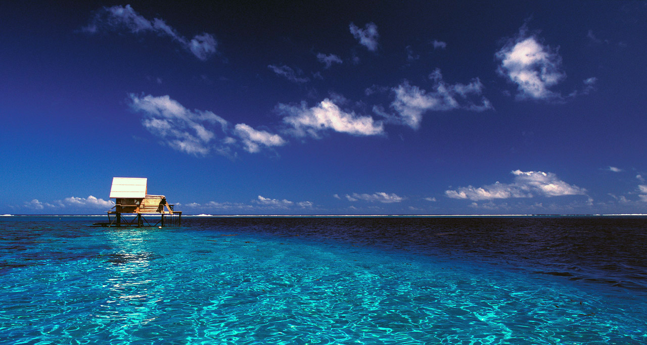 This is where a "foreign body" is introduced into an oyster. The oyster will then coat this foreign body to defend itself, thereby forming a black pearl.